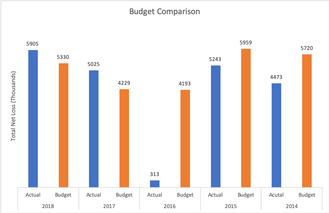 This chart shows the actual loss taken by the Metropolitan Football Stadium District compared to the budgeted loss from the years 2014 to 2018.